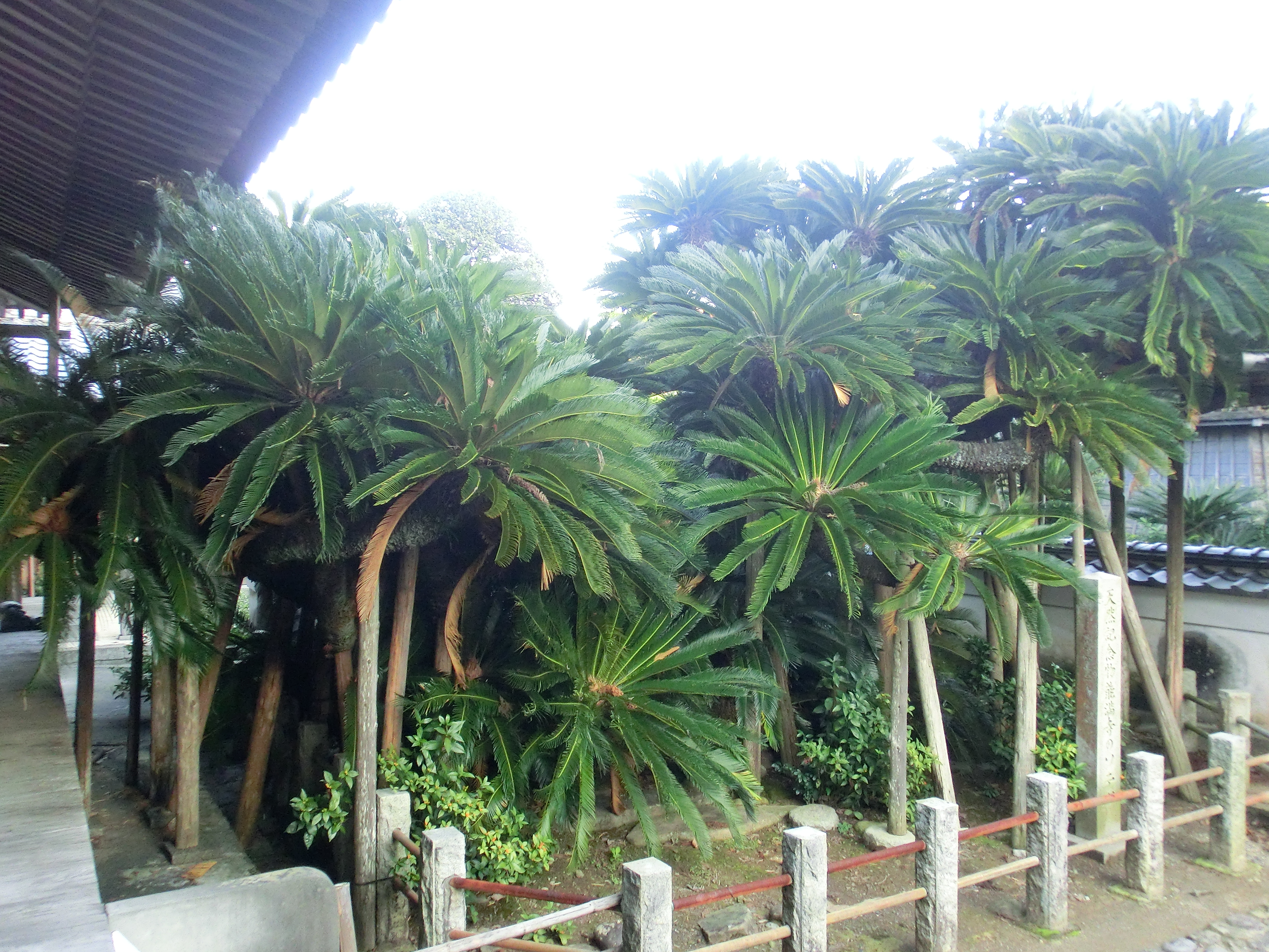 Mannoji-no-Sotetsu (Cycas revoluta of Mannoji temple), Yoshida town, Shizuoka pref..